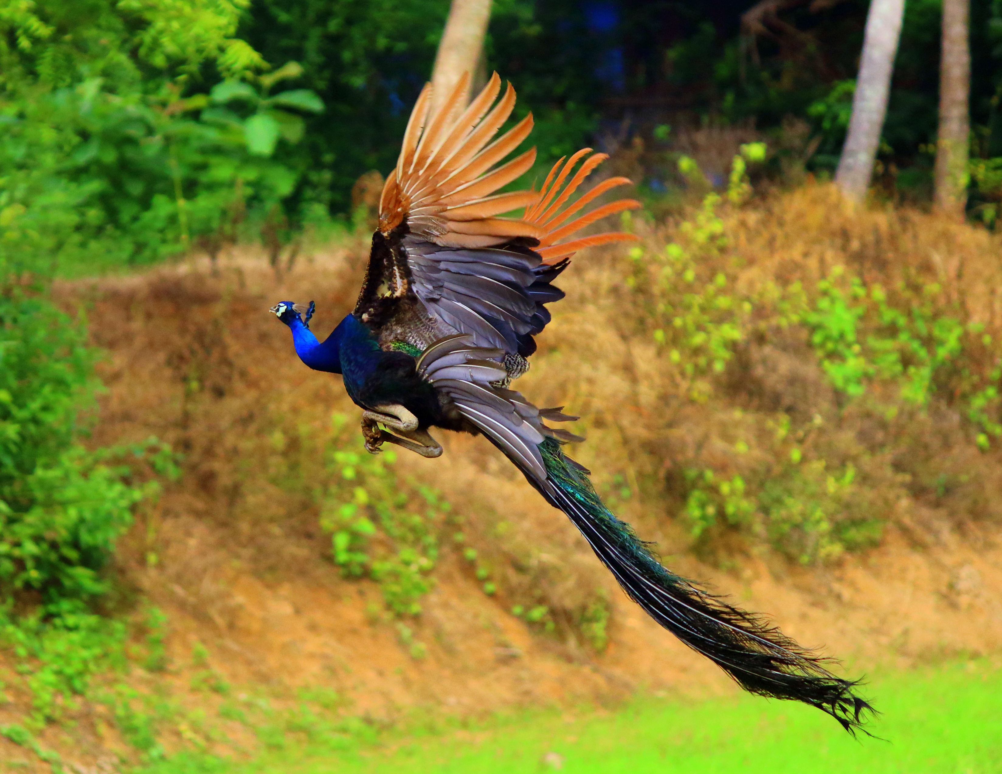 In a morning I hear the voice of peacock from my Home., then i take my camera and went to saw peacock., then i find a peacock on a palm tree., it doesn't have any feather., But it is also beautiful so i click some snaps. At that time i hear some leaf sound., when i turned, OMG I am just woww to saw the beautiful bird ran in front of my eye., its feather gently wave in the floor.., then i turned my camera to his beauty and got my dream Click...